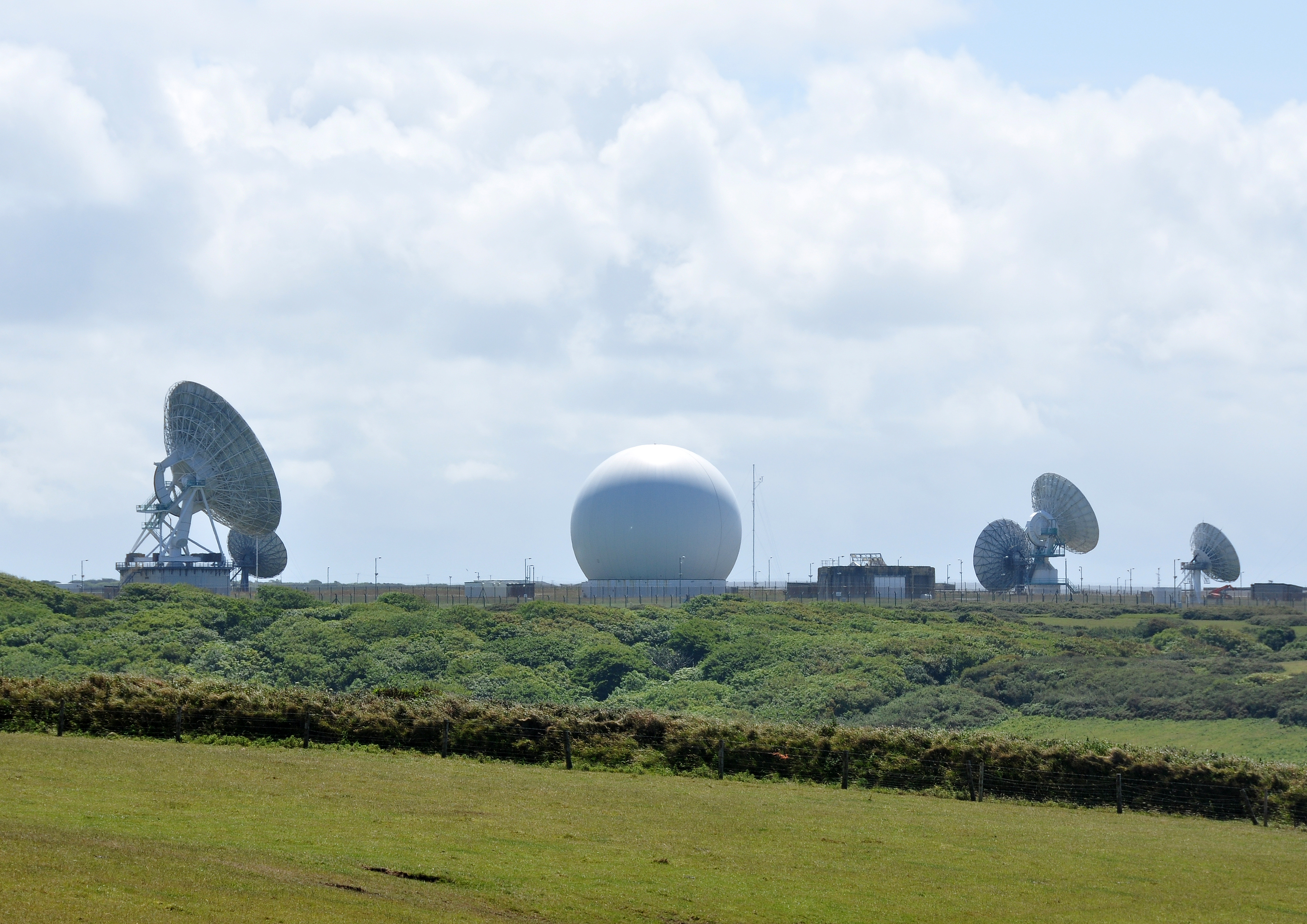 Various satellite dishes at GCHQ Bude in Cornwall.